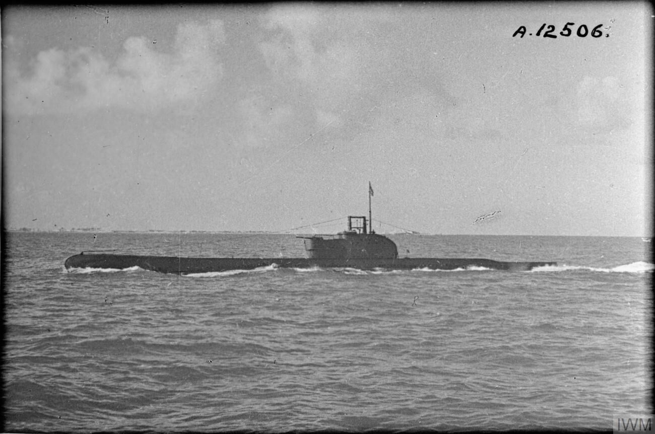 The Royal Navy during the Second World War HMSM PROTEUS underway in the Mediterranean.